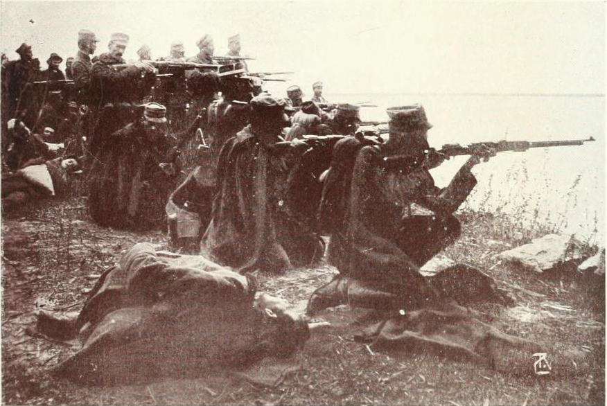 Greek riflemen in action during the Battle of Yenidje, First Balkan War.